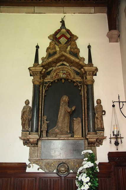 Mural monument in All Hallows' Church, Harthill, Yorkshire, to Margaret Belasyse (d.1624) (Lady Osborne), daughter of Thomas Belasyse, 1st Viscount Fauconberg by his wife Barbara Cholmondeley, and wife of Sir Edward Osborne, 1st Baronet (d.1647), of Kiveton. Arms Osborne impaling Belasyse.